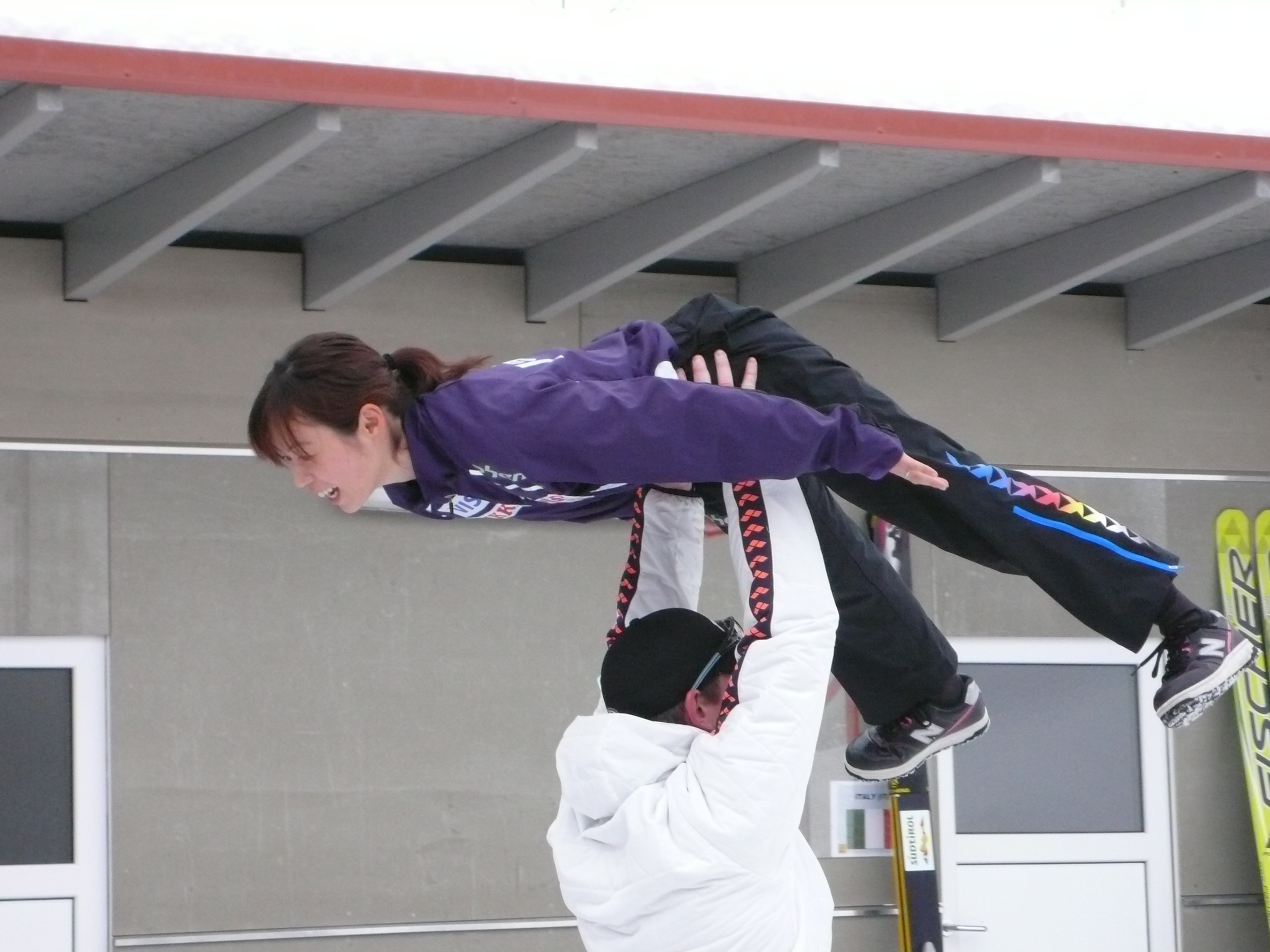 Yoshiko Kasai, warm-up before to go to jump.